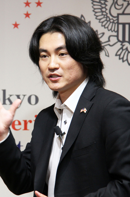 Koyamada speaking at the US Embassy Tokyo on the 2012 national tour by the U.S. State Department in Japan.